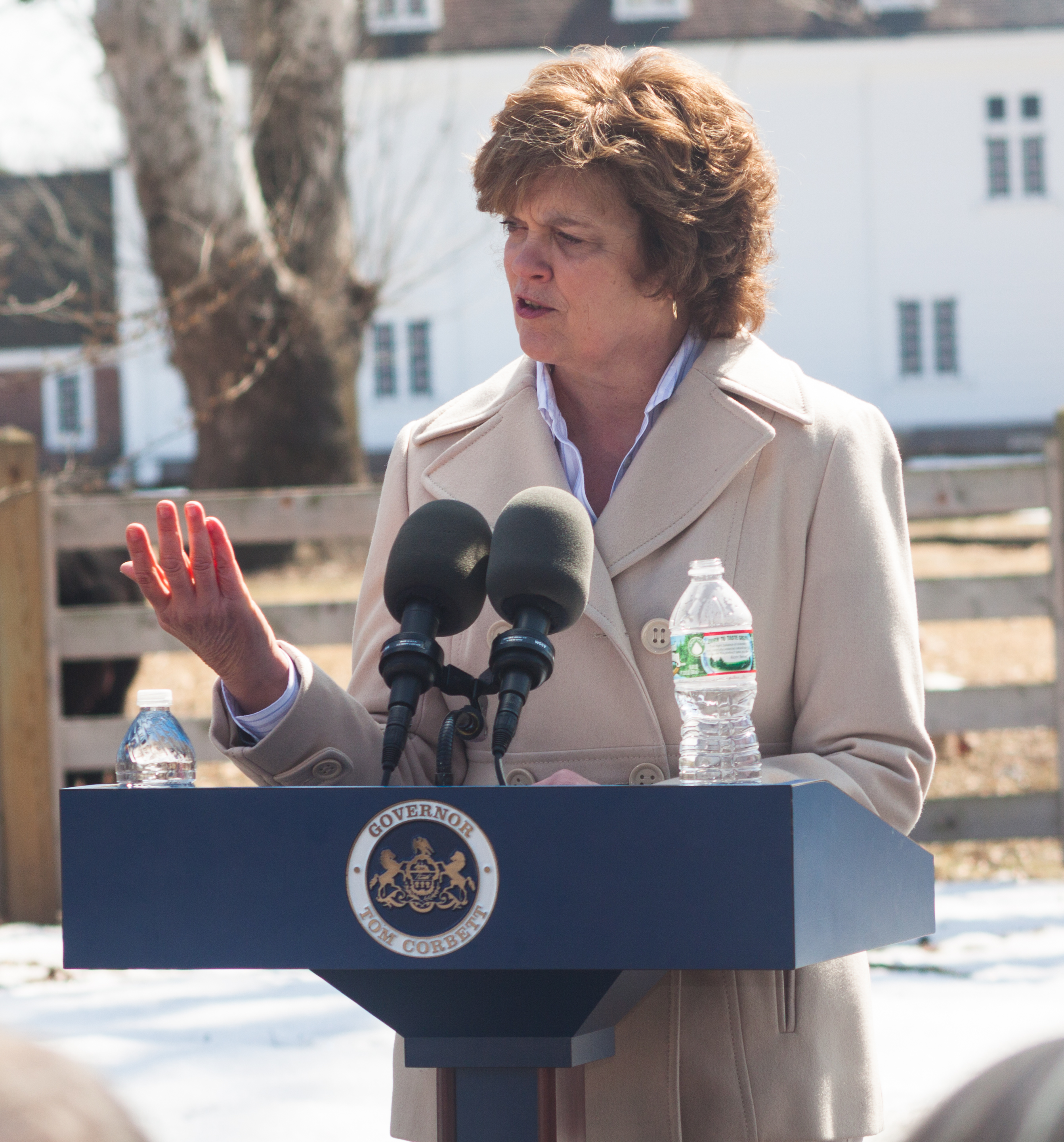 Susan Manbeck, wife of Governor Tom Corbett, speaks at Pennsbury Manor regarding its history and the life of Hannah Penn, wife of William Penn.